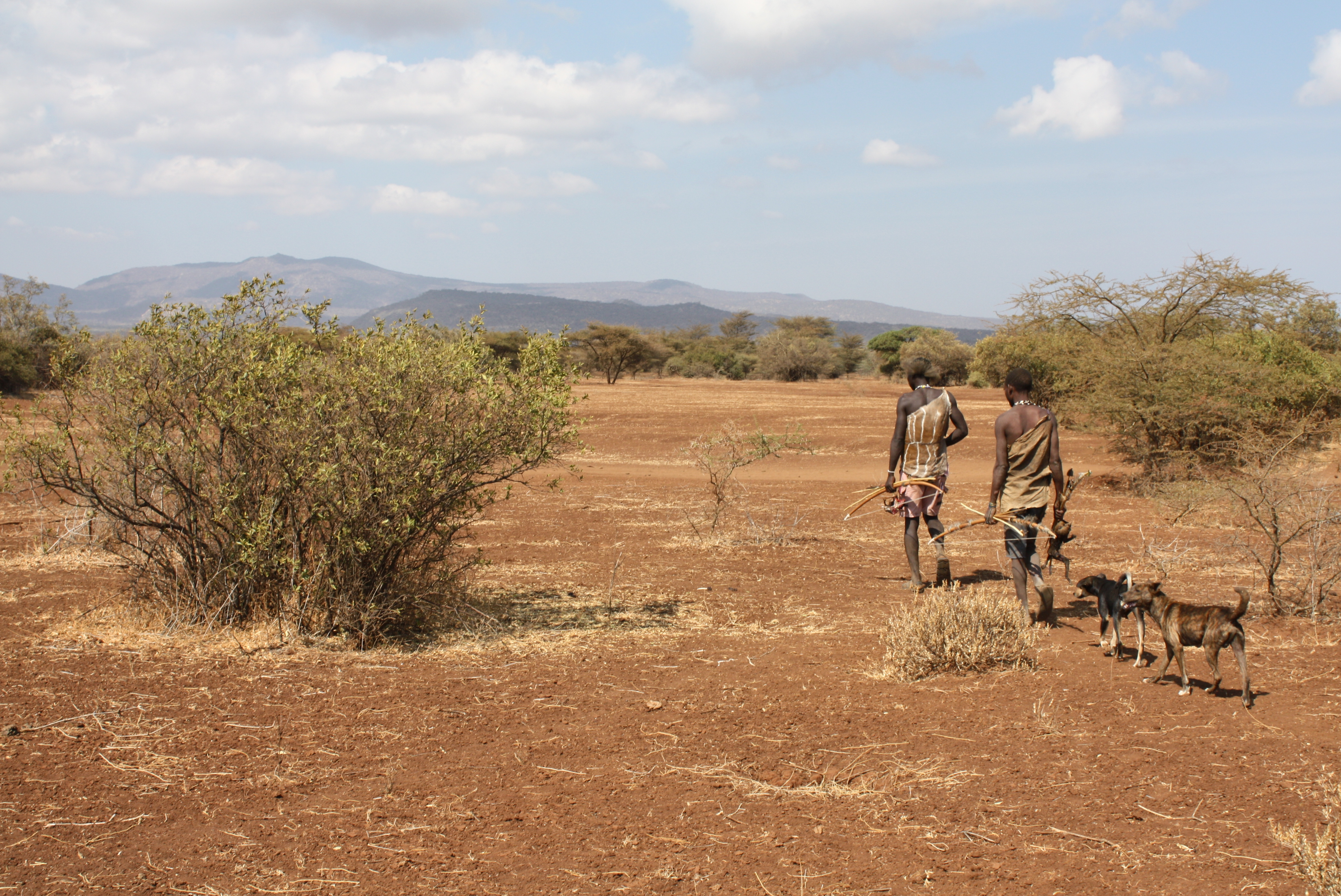 Two Hadzabe men in Tanzania walking, carrying bows and today's catch. Two dogs follow them.